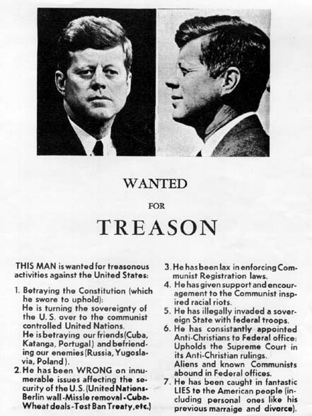 Wanted for Treason – infamous handbill circulated on November 21, 1963 in Dallas, Texas, one day before John F. Kennedy visited the city and was assassinated (for details see here[dead link])